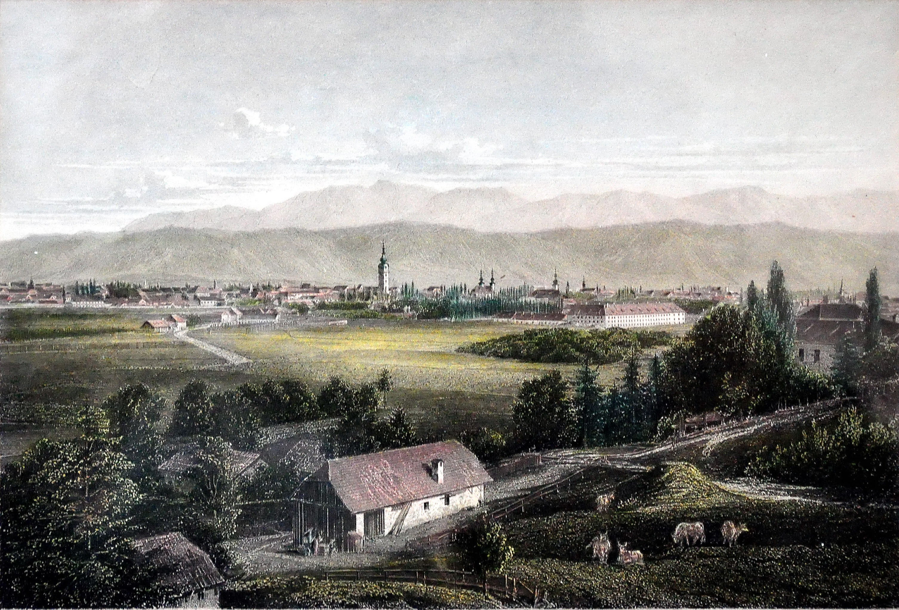 Historical painting with view from the Sankt Primus Weg near the Castle Zigguln, Klagenfurt, Carinthia, Austria